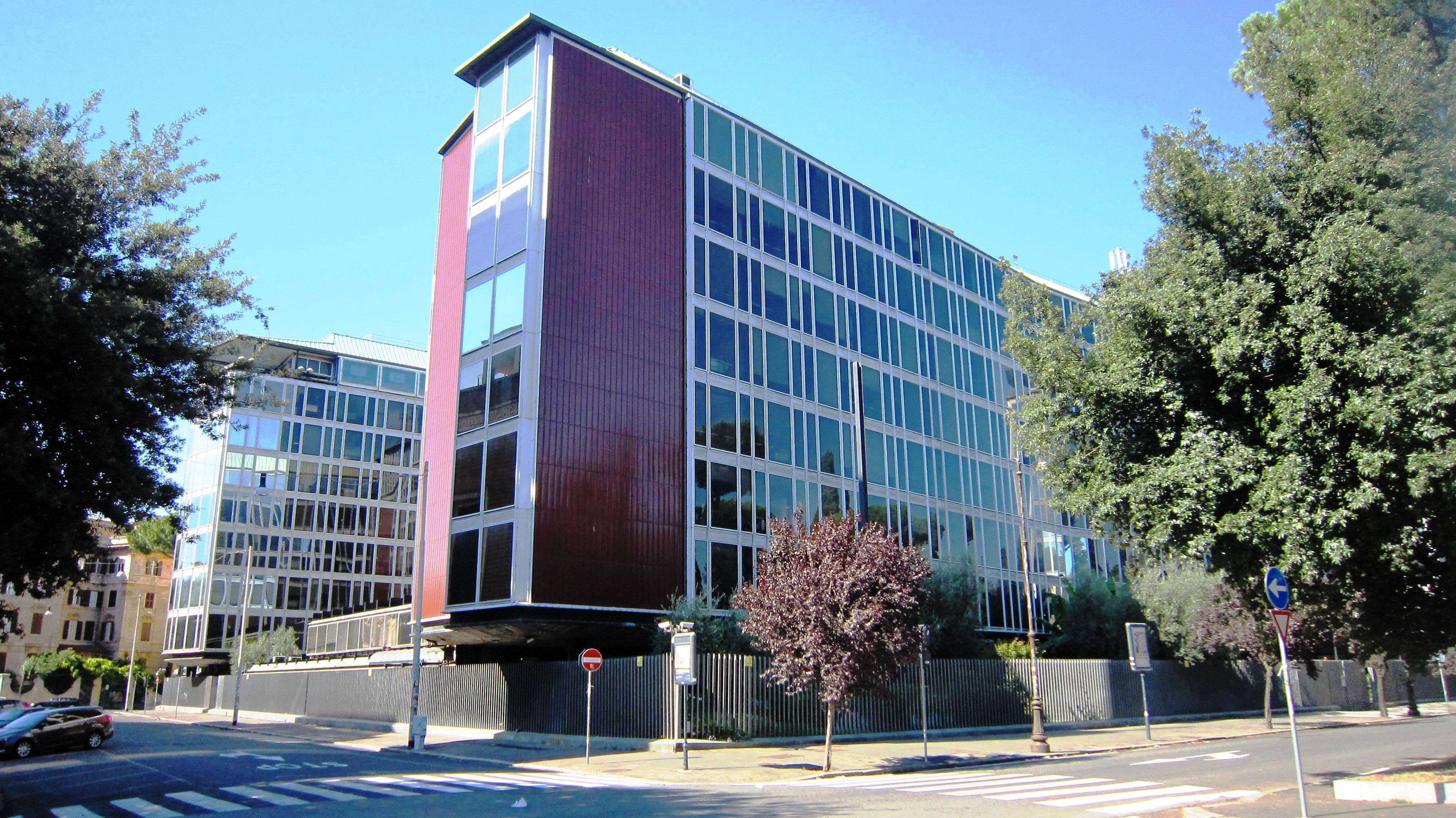 Rai Via Mazzini Roma